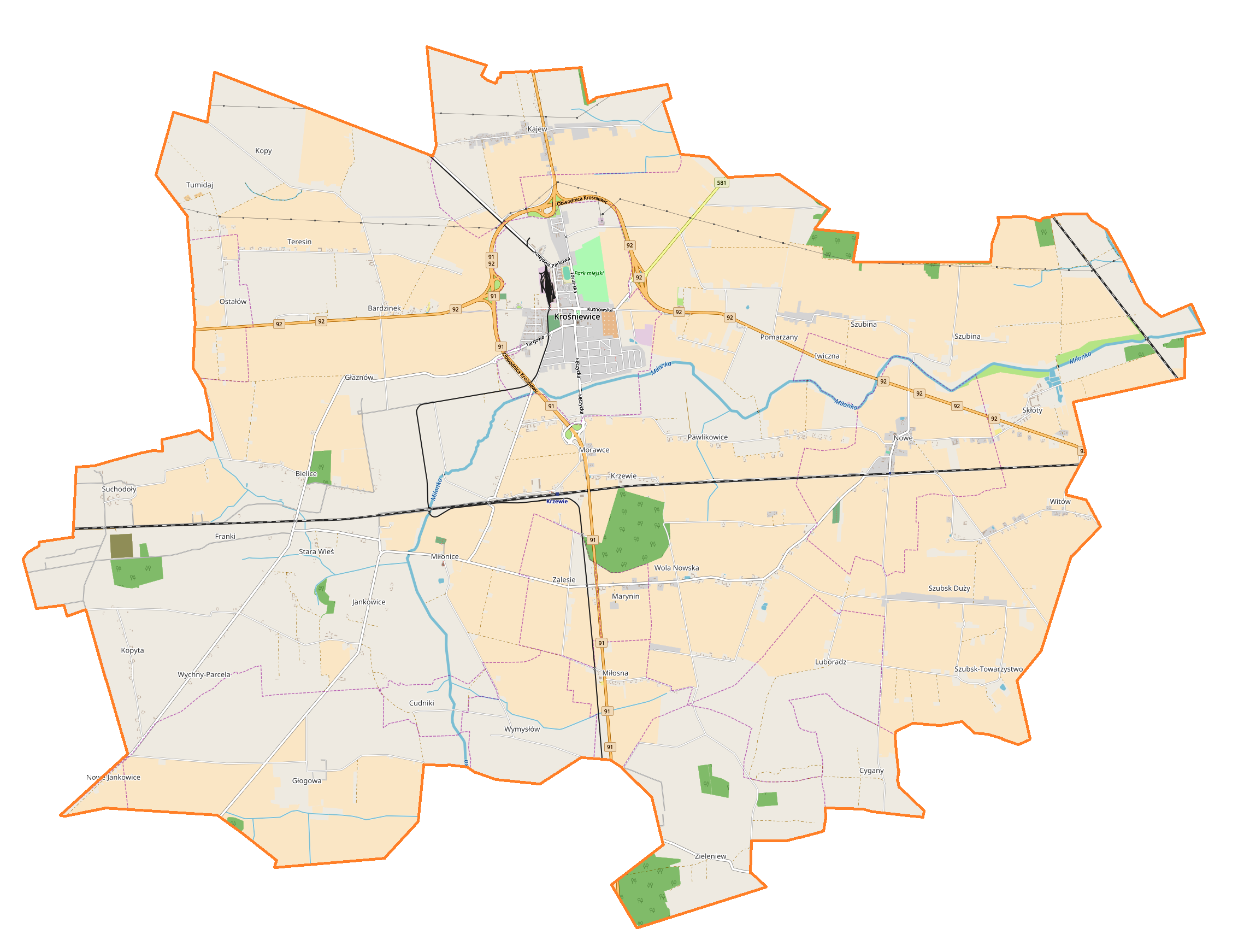 Location map